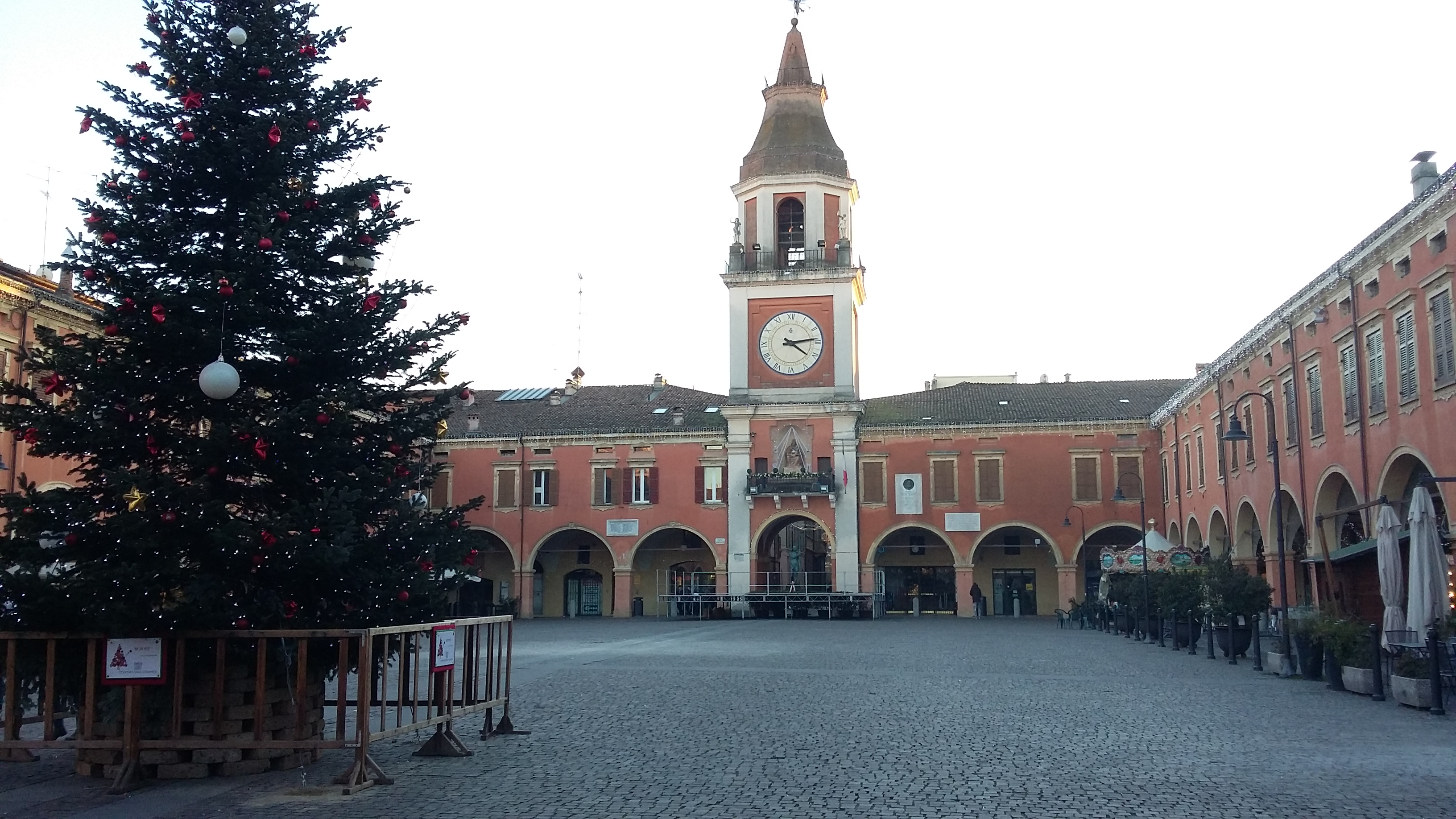 Garibaldi Square, Sassuolo (MO)